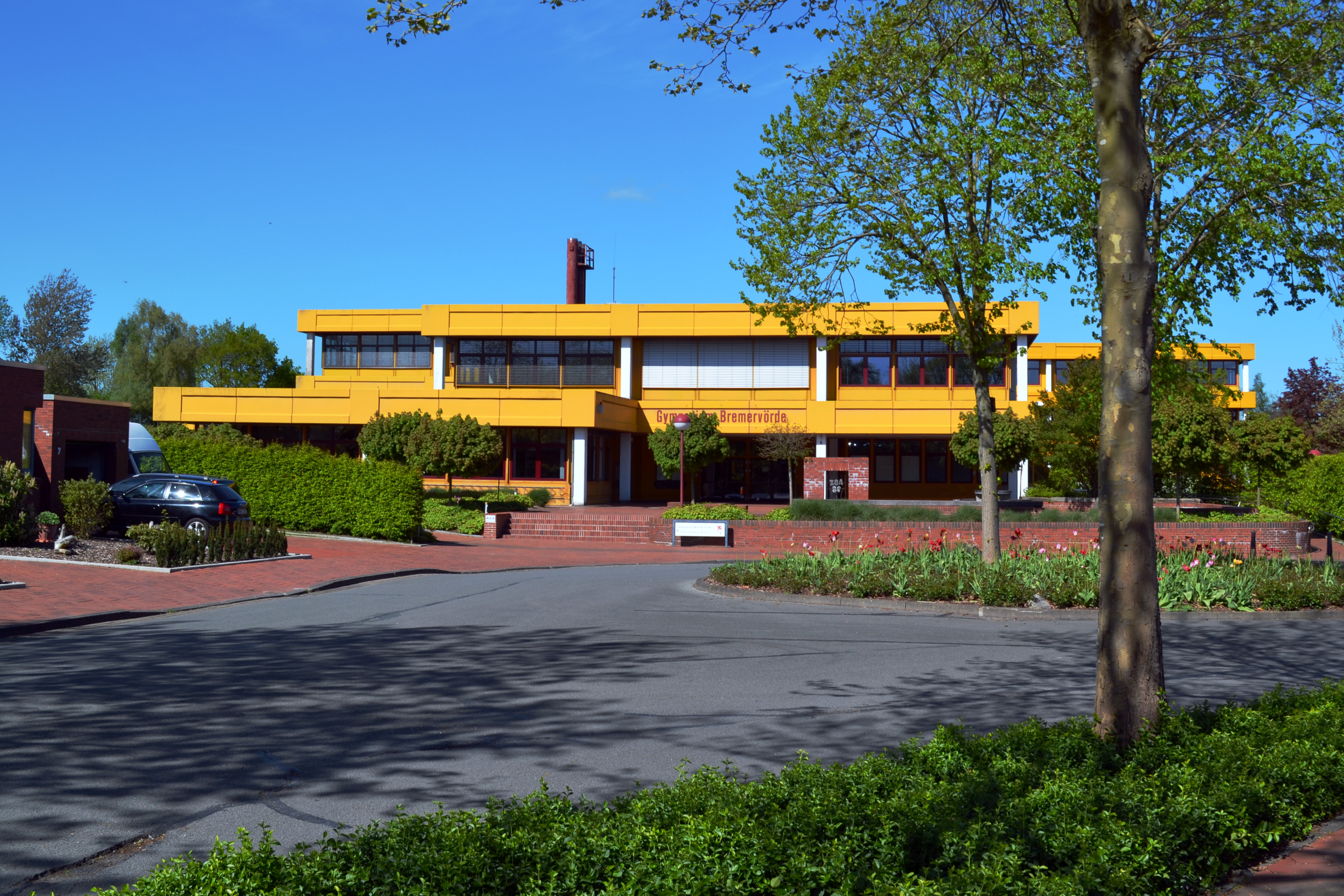 This image shows the Gymnasium Bremervörde, a secondary school which ist located in the southest city-area, Engeo.